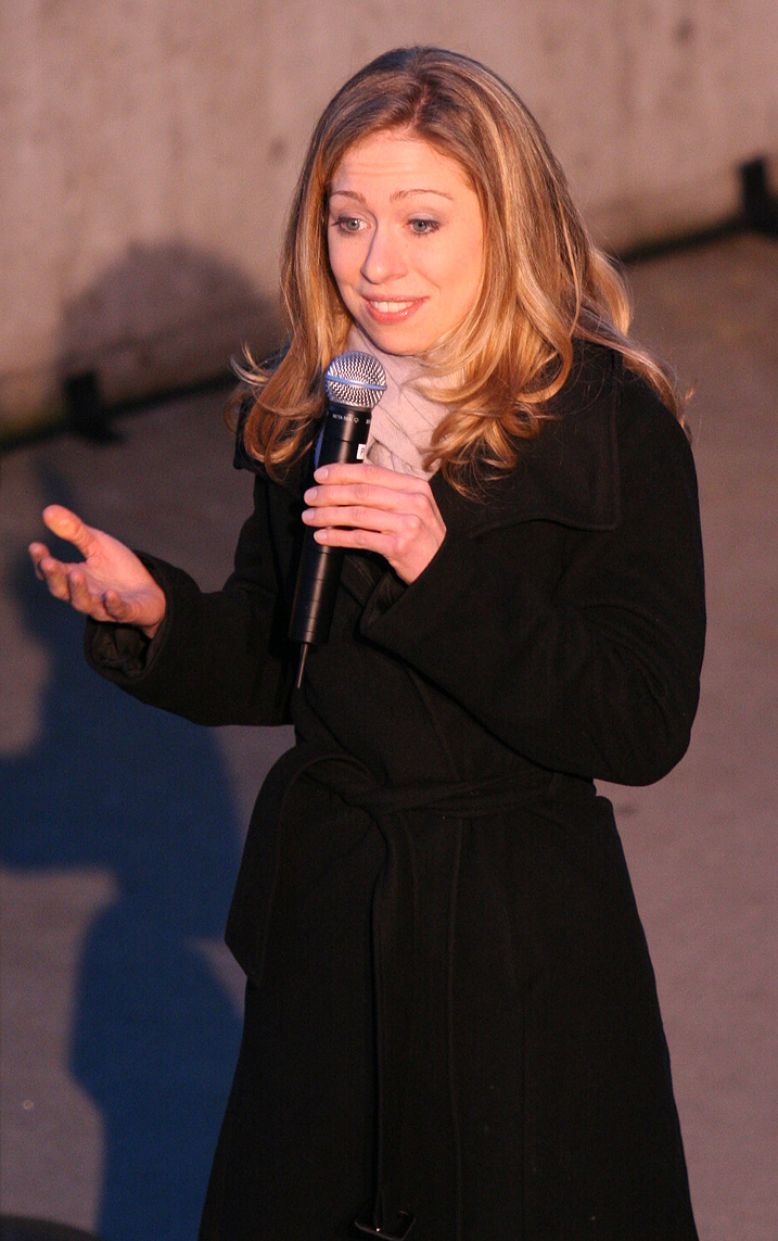 Chelsea Clinton speaking during a campaign stop at California Polytechnic State University for her mother